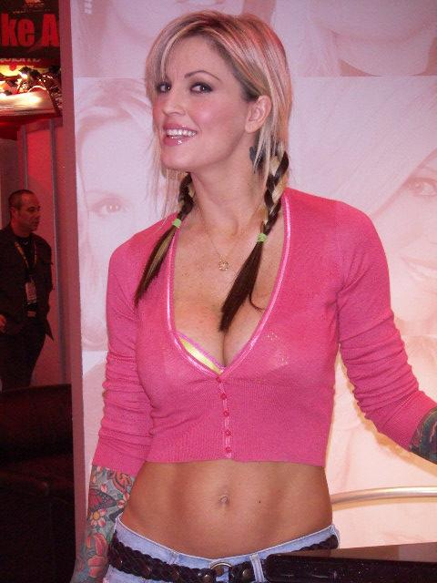 Janine Lindemulder, taken at the AVN Expo on January 5, 2005.